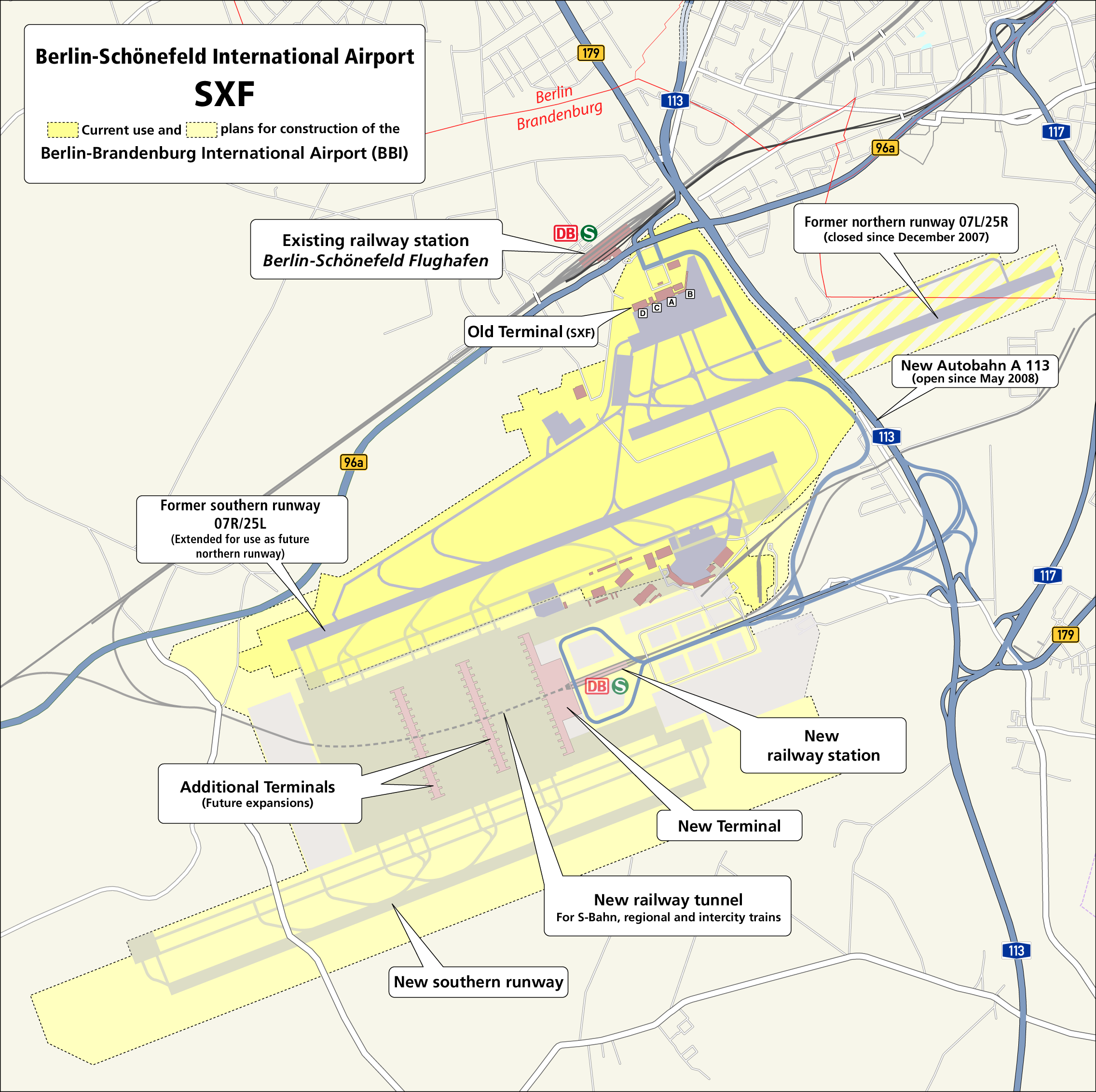 Map of Berlin-Schönefeld International Airport showing the planed Berlin-Brandenburg International Airport.